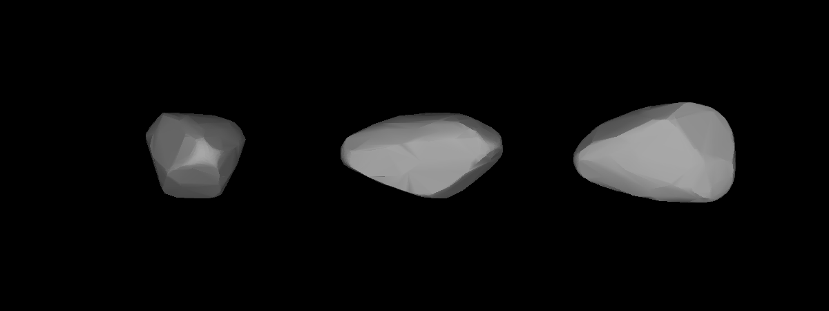 A three-dimensional model of 4606 Saheki that was computed using light curve inversion techniques.